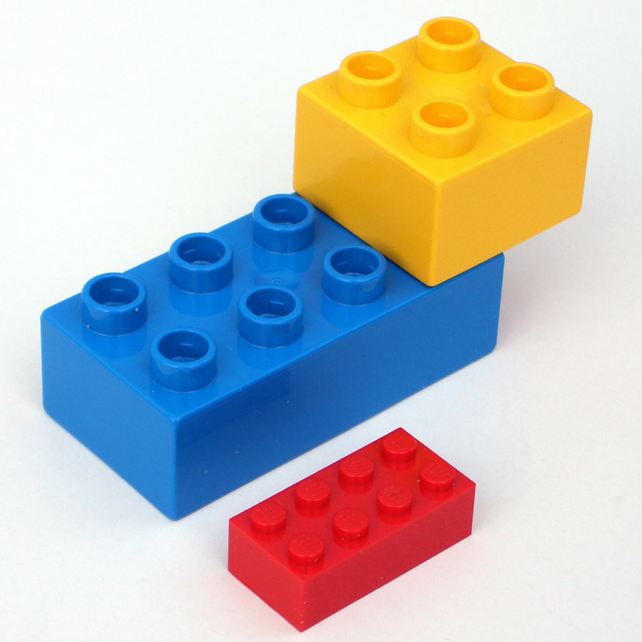 Two Duplo and one normal Lego bricks, photo taken by klasbricks for Wiki.